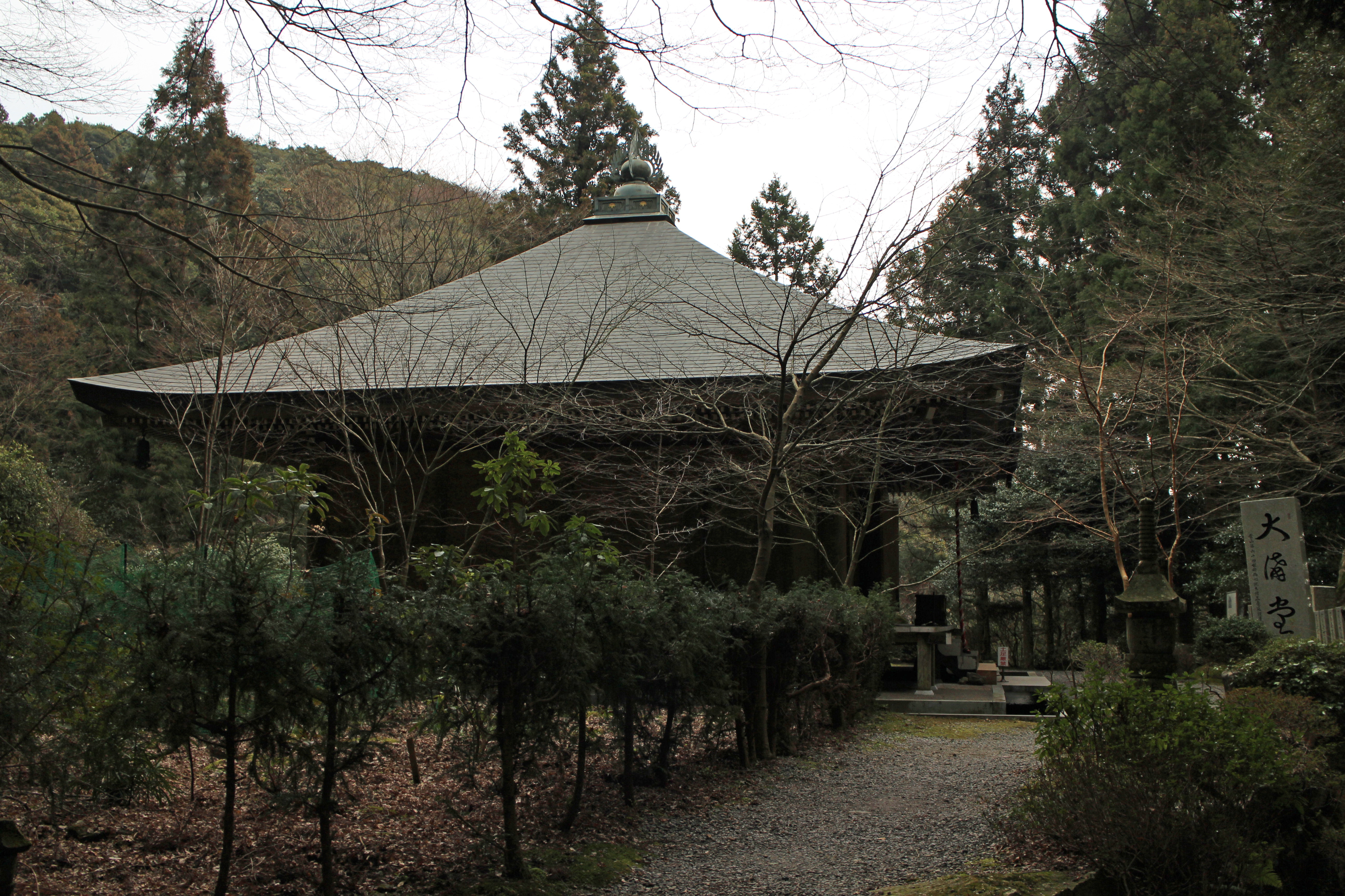 Futagoji-temple-Daikodo